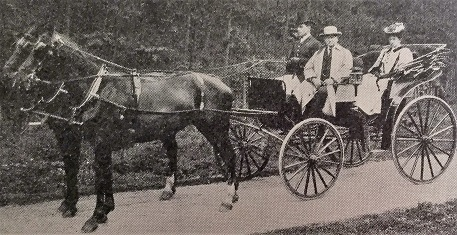 William Morton and daughter arriving in Hull, using his own horses in 1895